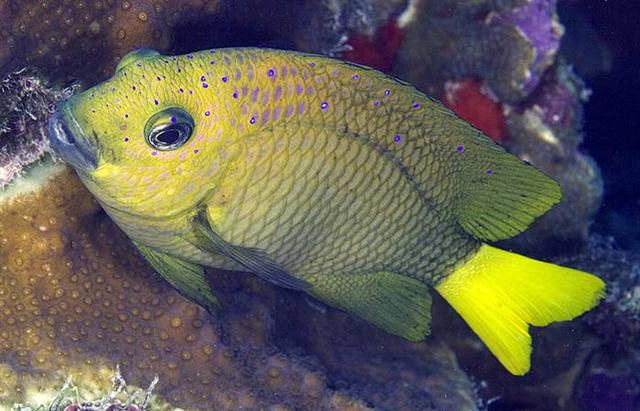 Neth Antilles, 5.06, Bonaire